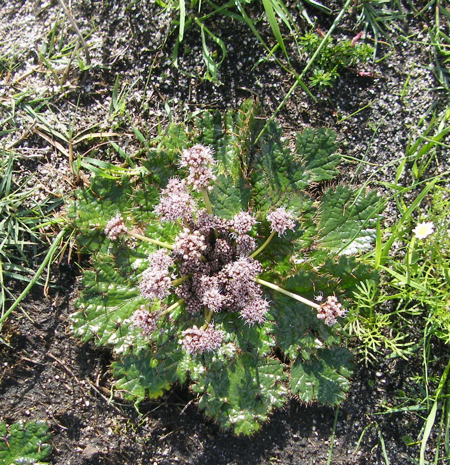 Arctopus echinatus male